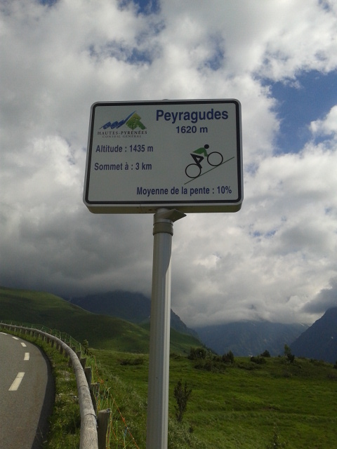 2015 Mountain pass cycling milestone - Peyragudes from Peyresourde